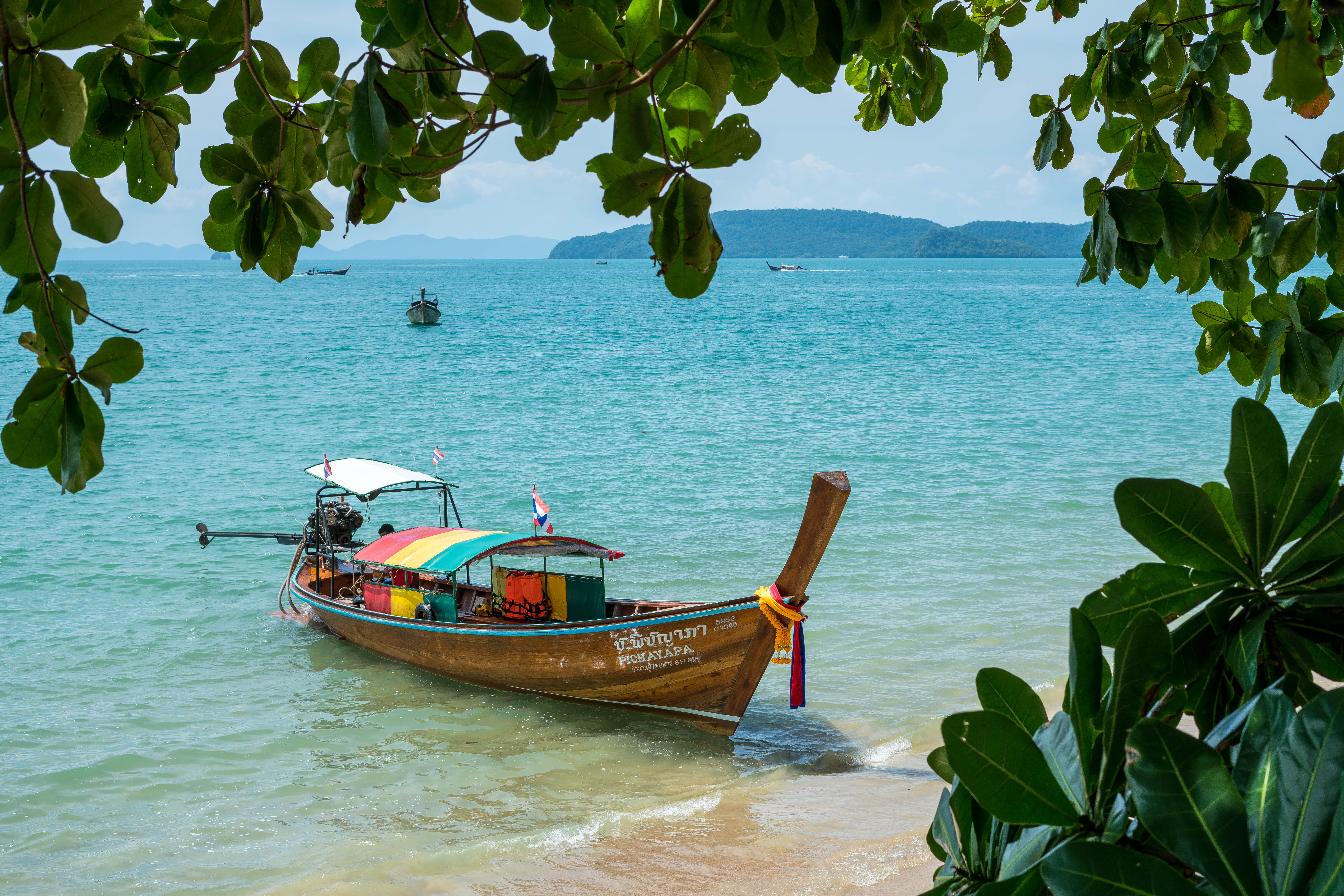 Photograph by Ijas Muhammed Photography